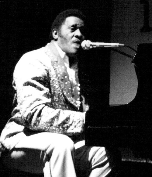 pianist Jimmy Mc Cracklin in London, UK (100 club)